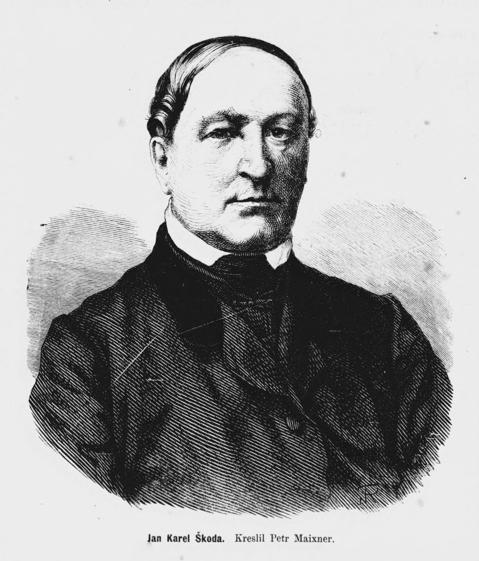 Portrait of Jan Karel Škoda (1810-1876), Czech priest, teacher and writer